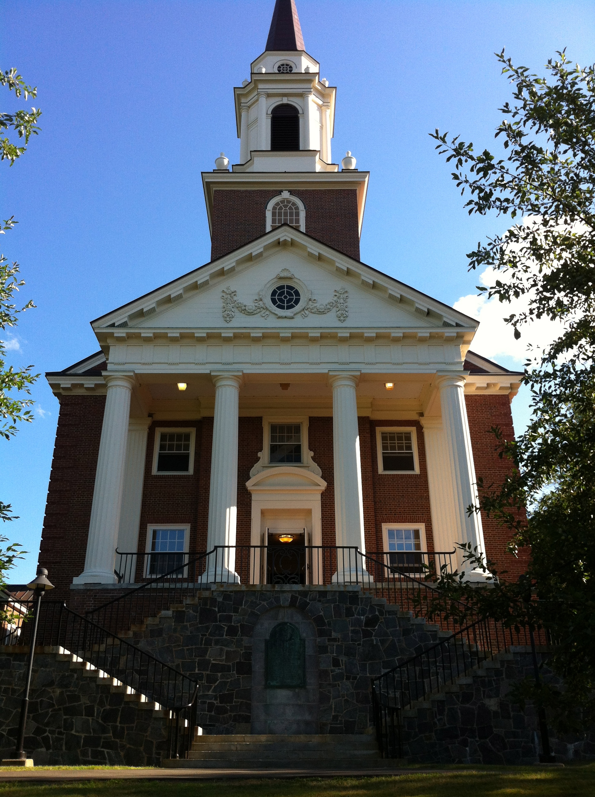 Colby College, Lorimer Chapel, Author: Nick Kline